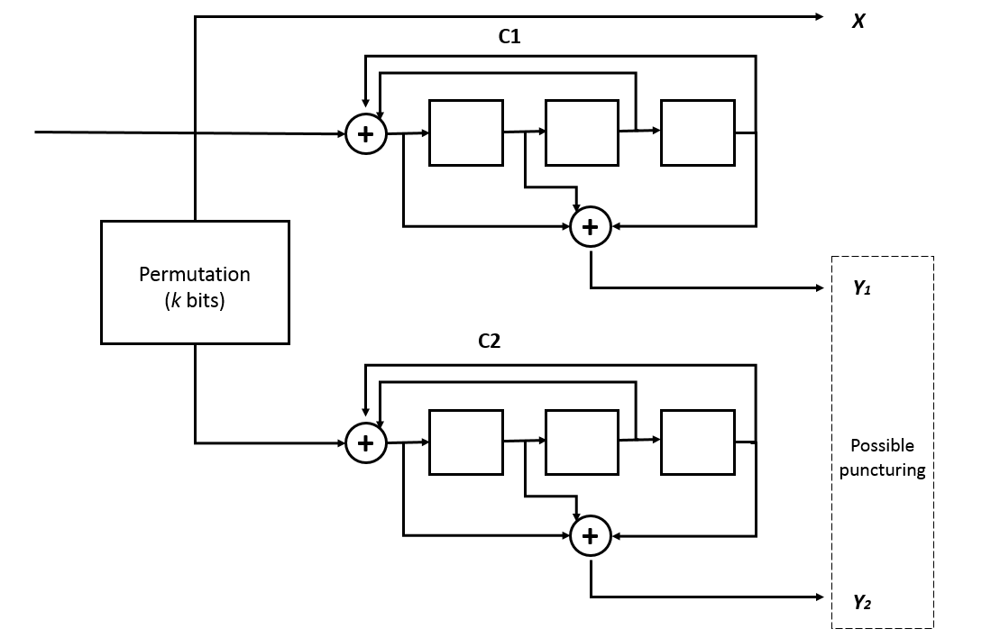 Designed according to "Turbo code" by Dr. Sylvie Kerouédan and Dr. Claude Berrou